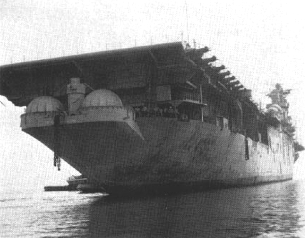 The decommissioned U.S. Navy aircraft carrier USS Franklin (AVT-8) being moved at Bayonne, New Jersey (USA), in 1964.